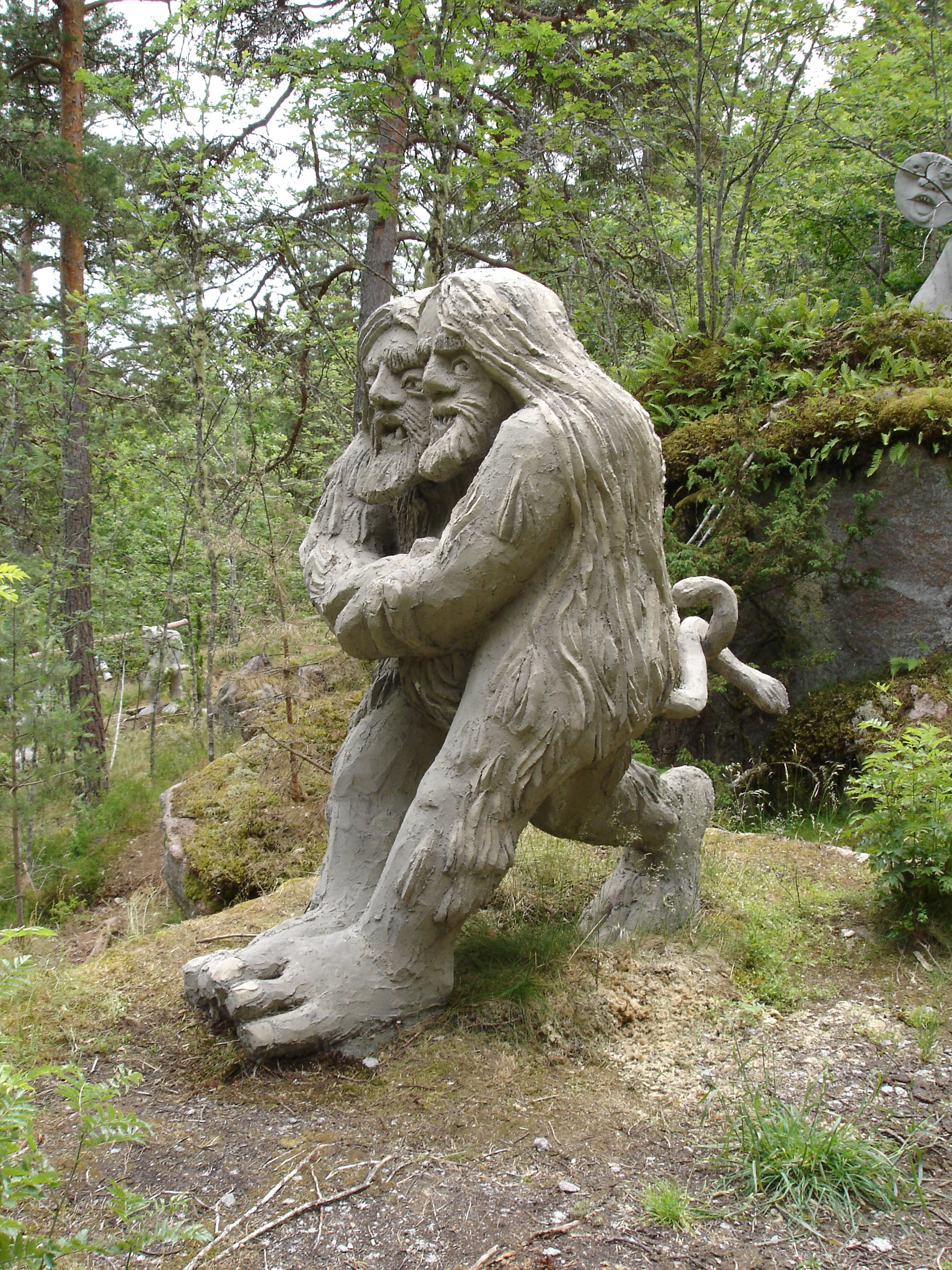 Image of the artwork of Jan Pol at the Garpedansberget, depicting the sculpture Garpedansare